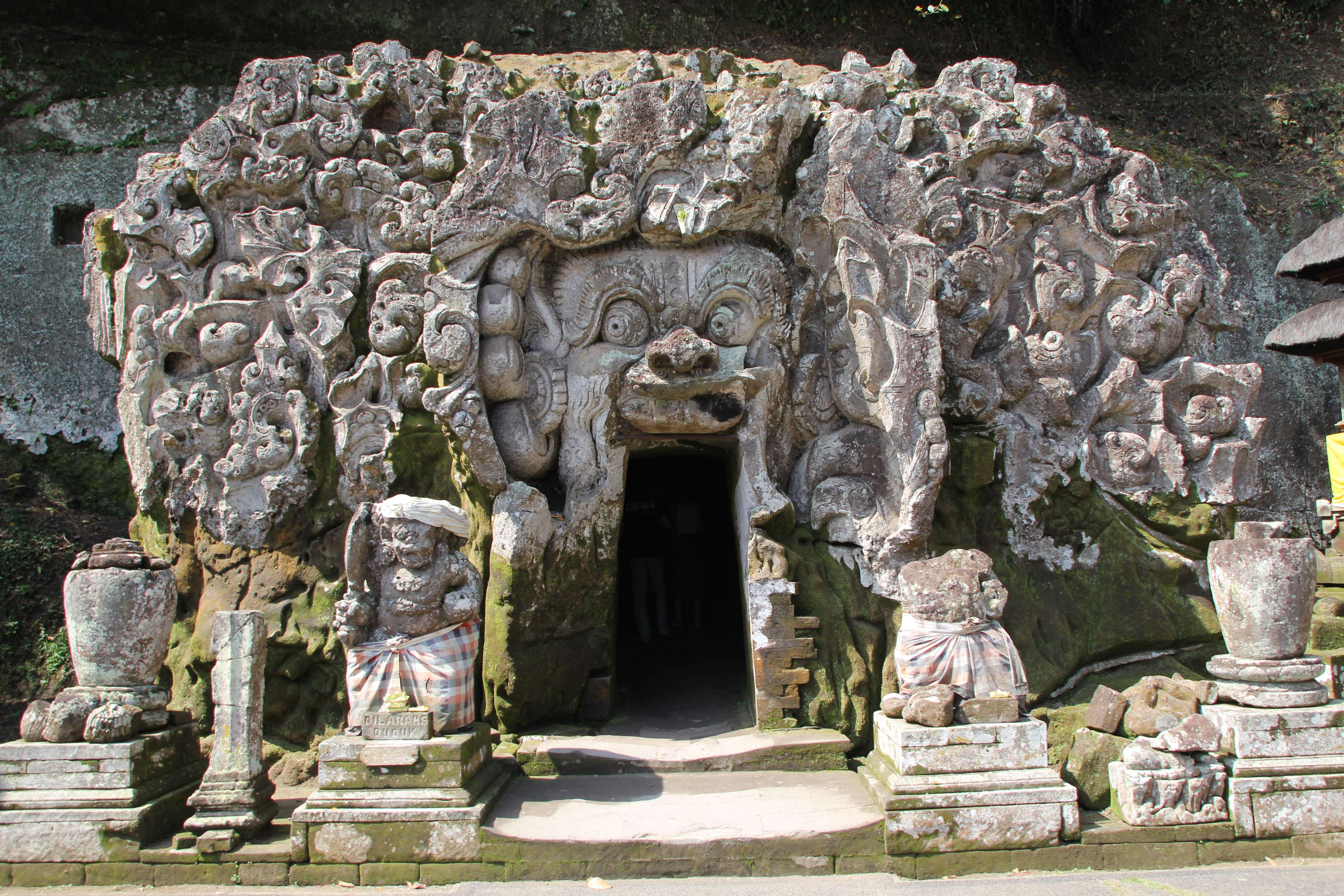 The Goa Gajah Cave close to Ubud, Bali, Indonesia, Asia, Earth, ...